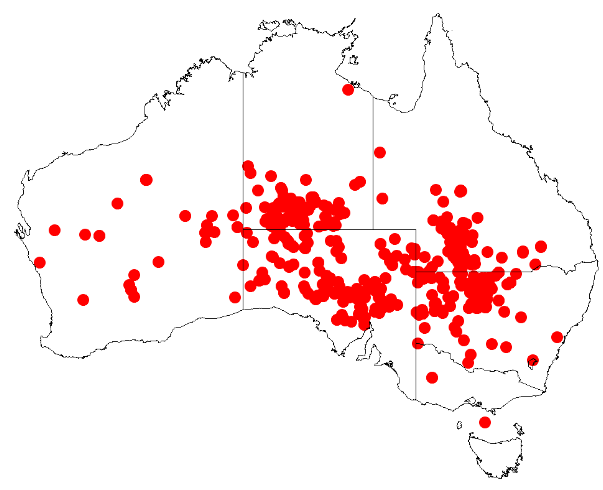 Acacia brachystachya occurrence data map from AVH downloaded from on 8 December 2018